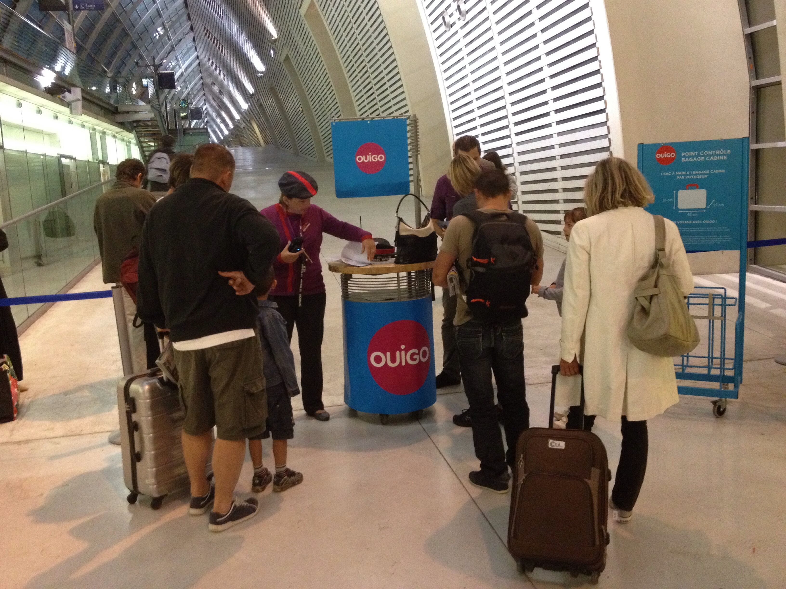 Ticket check-in for SNCF's low cost train Ouigo at Avignon TGV train station